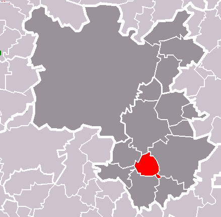 Location of Nezbavětice municipality within Plzeň-City District.